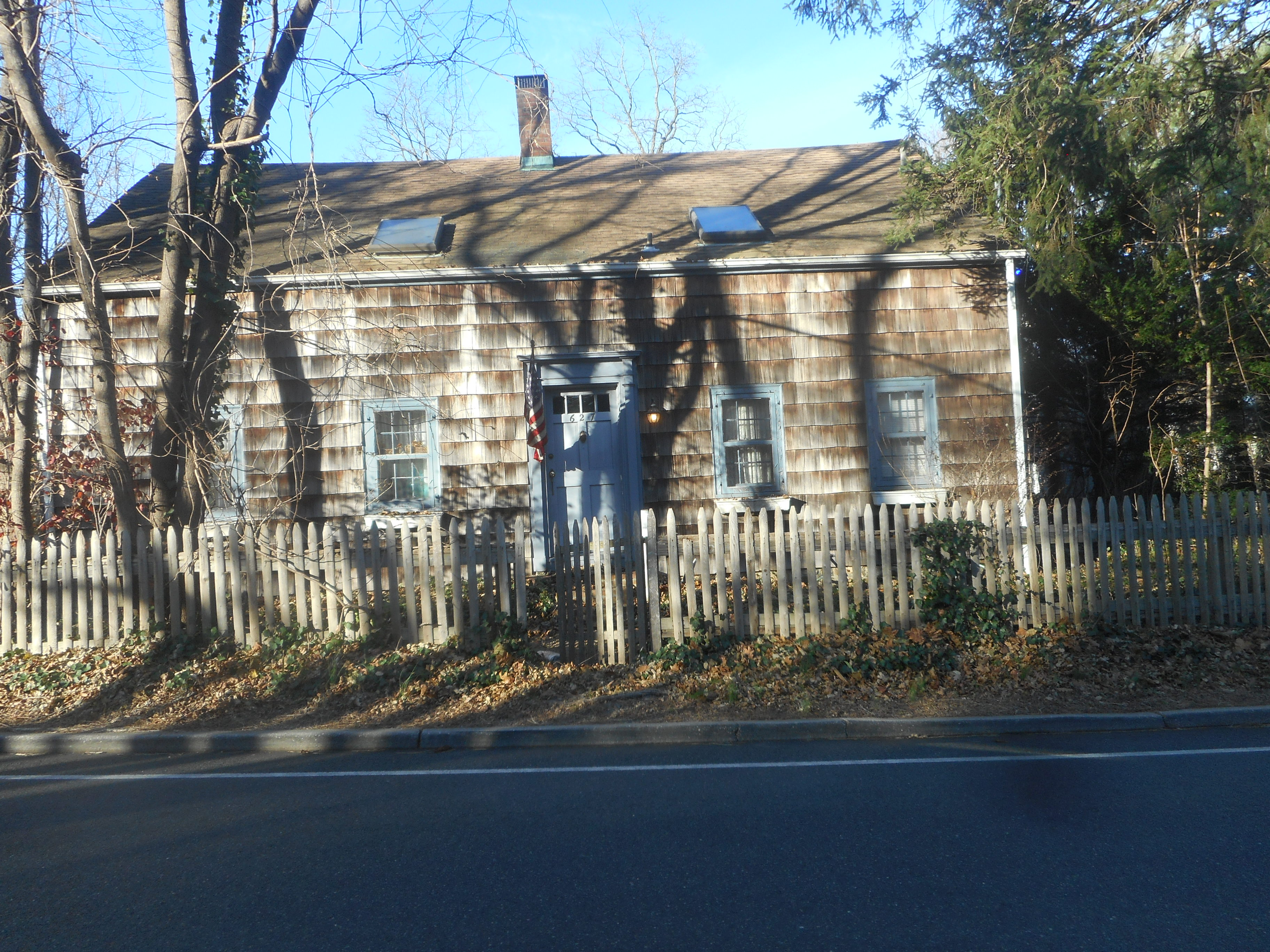 One of the few lucky shots of the NRHP-listed John Rogers House at 627 Half Hollow Road in Half Hollow Hills, New York.